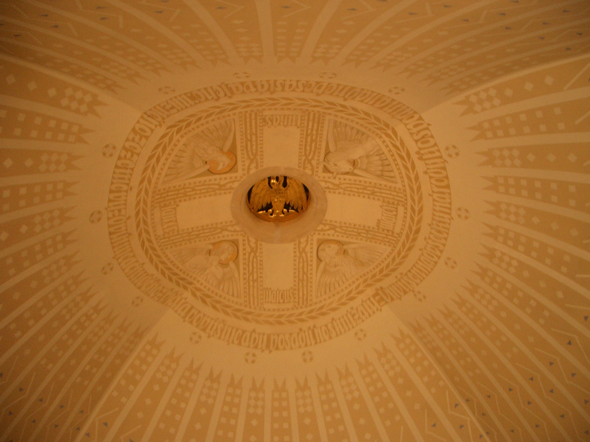 Peace Monument at Austerlitz: Cupola Author: Jean-Claude Brunner